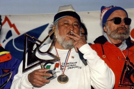 1 Abel Ramírez Águilar at prize ceremony for his ice sculptures at the 1992 Winter Olympic Games in France